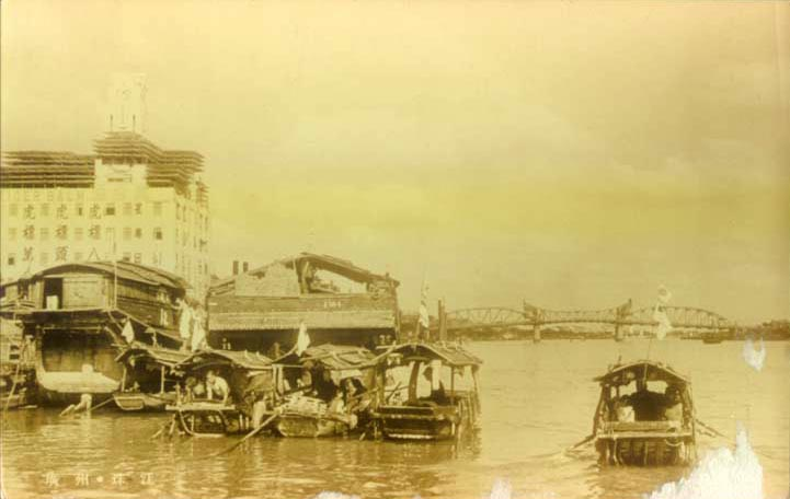 Eng Aun Tong Building (left) with Tiger Balm advertisement and Haizhu Bridge (right)